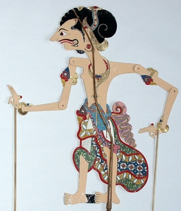 Nursiwan Raja (king) of Medayin in the epos Serat Menak Sasak. Main enemy of the heroe Amir Hamzah.